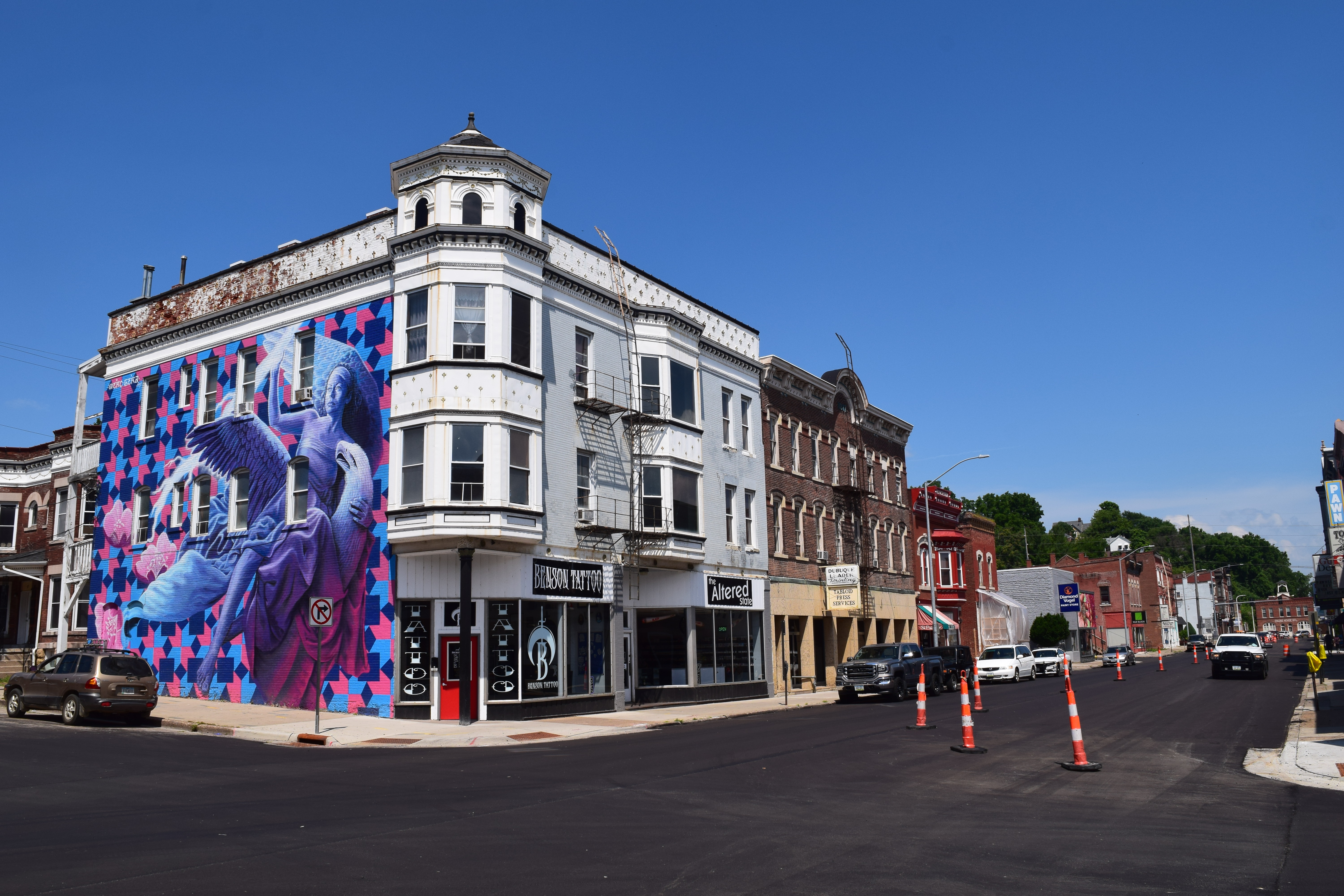 Buildings on the west side of the 1500 block of Central Avenue in Dubuque, Iowa. The buildings are part of the Upper Central Avenue Commercial Historic District.